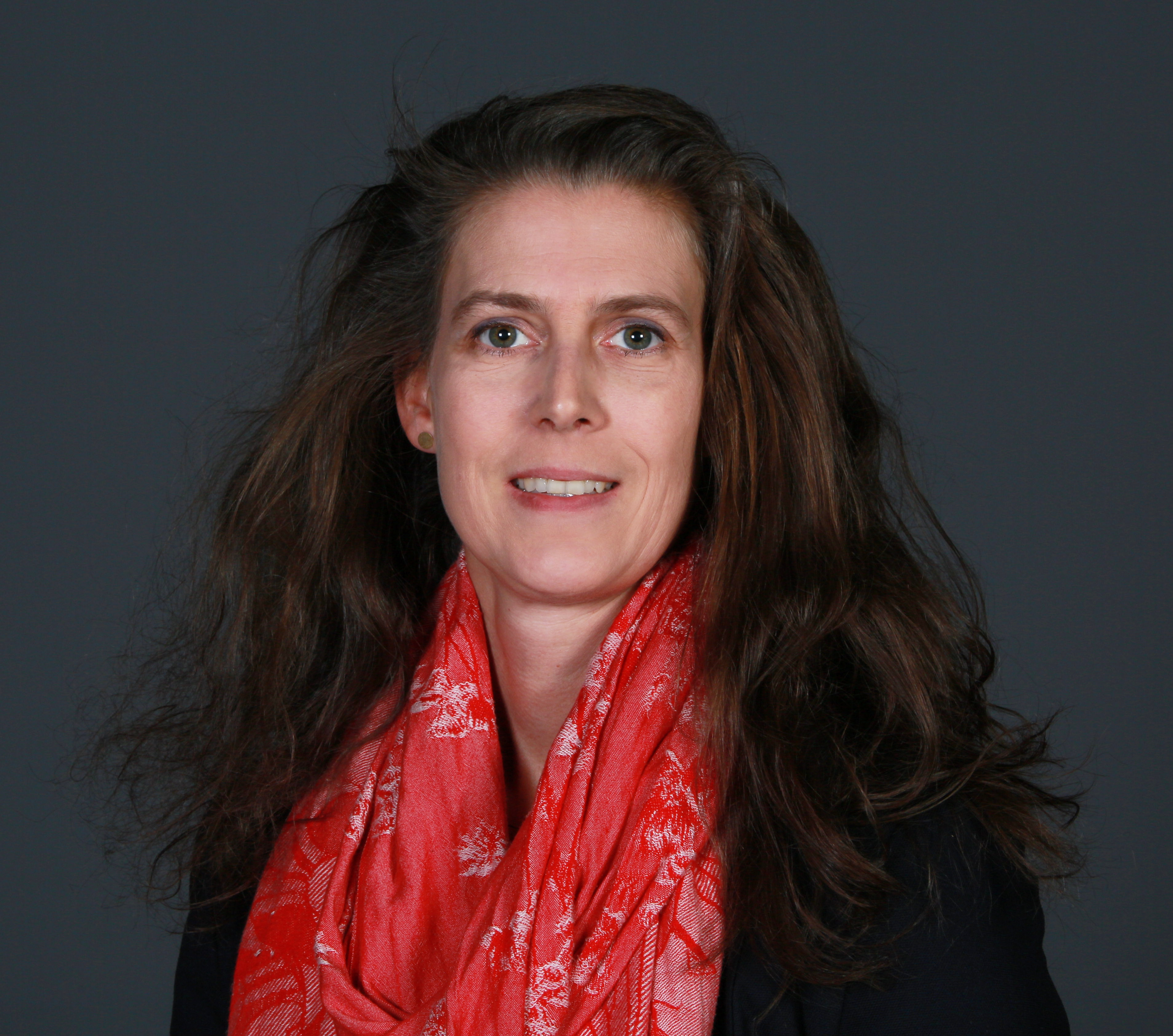 Birte Gutzki-Heitmann (SPD), member of the Hamburg Parliament